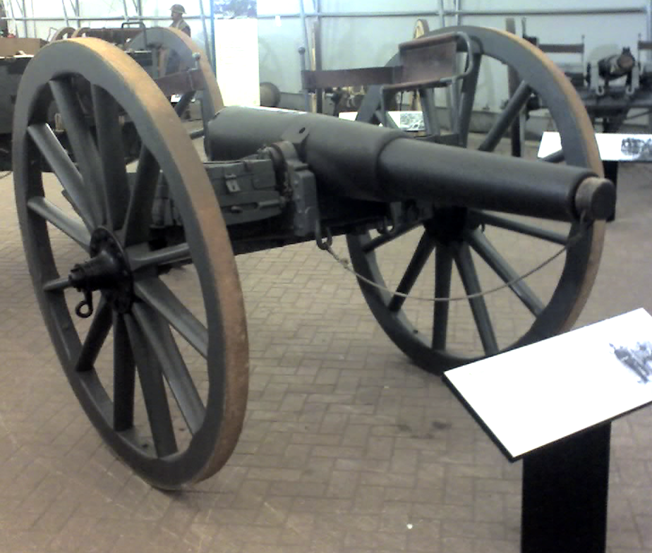 British 16-pounder Rifled Muzzle Loader artillery piece of 1873. On display in Royal Armoury Fort Nelson, Hampshire, UK.